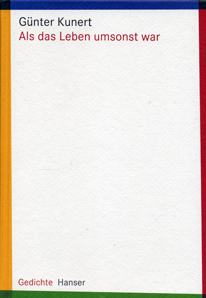 Book cover of Günter Kunert's book with poems "Als das Leben umsonst war"